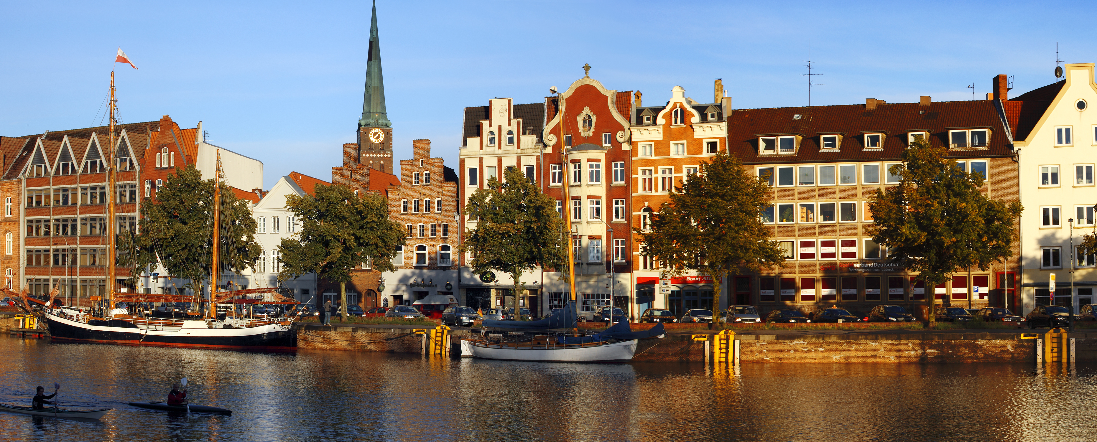 Hanseatic Lübeck. The view to the river Trave the Old Town from the east. Published: Nikolay Yagunov, Tatiana Yagunova. Hanse centuries later. Germany. Poland. Russia. Lithuania: the album of photos — Kaliningrad, 2014. — Volume I. — 205 p. — 2000 сopies. — ISBN 978-83-7823-474-6. — P. 24-25.